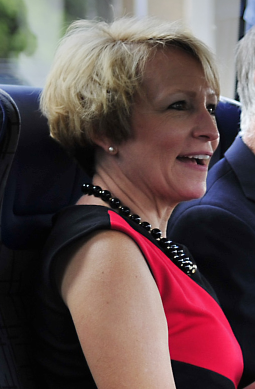 Sue Ellspermann, lieutenant governor of Indiana, and her husband, Jim Mehling, speak with Airmen during a base tour July 25, 2015, at Ramstein Air Base, Germany. Ellspermann took a three-day trip to Germany to visit the origin of her ancestors who immigrated to Indiana and had the opportunity to meet with Airmen from Indiana and tour the base during her visit. (U.S. Air Force photo/Airman 1st Class Larissa Greatwood)